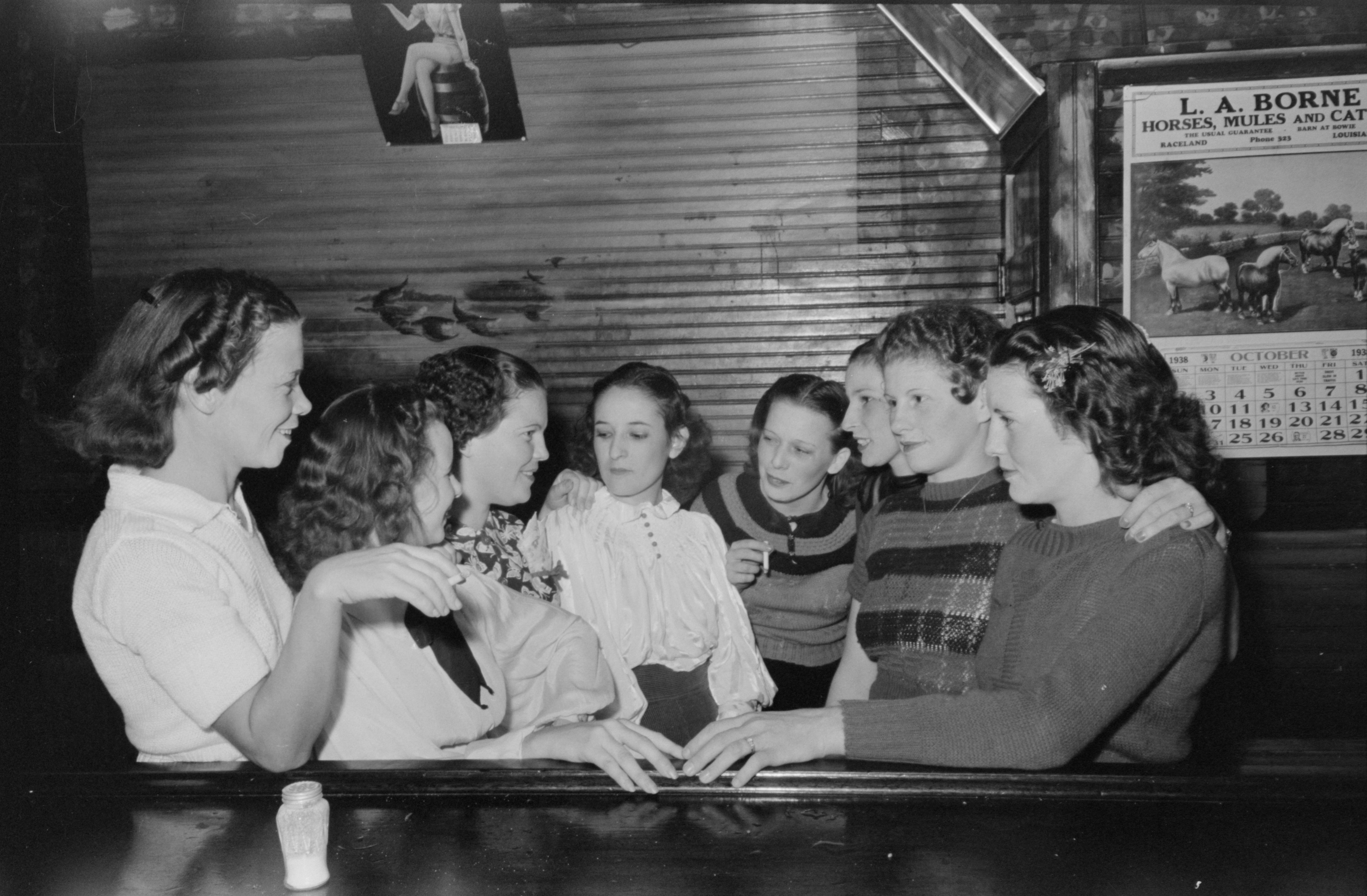 "Girls from the Cajun country at Raceland, Louisiana". Photo of group of 8 young women standing at bar, 1938.